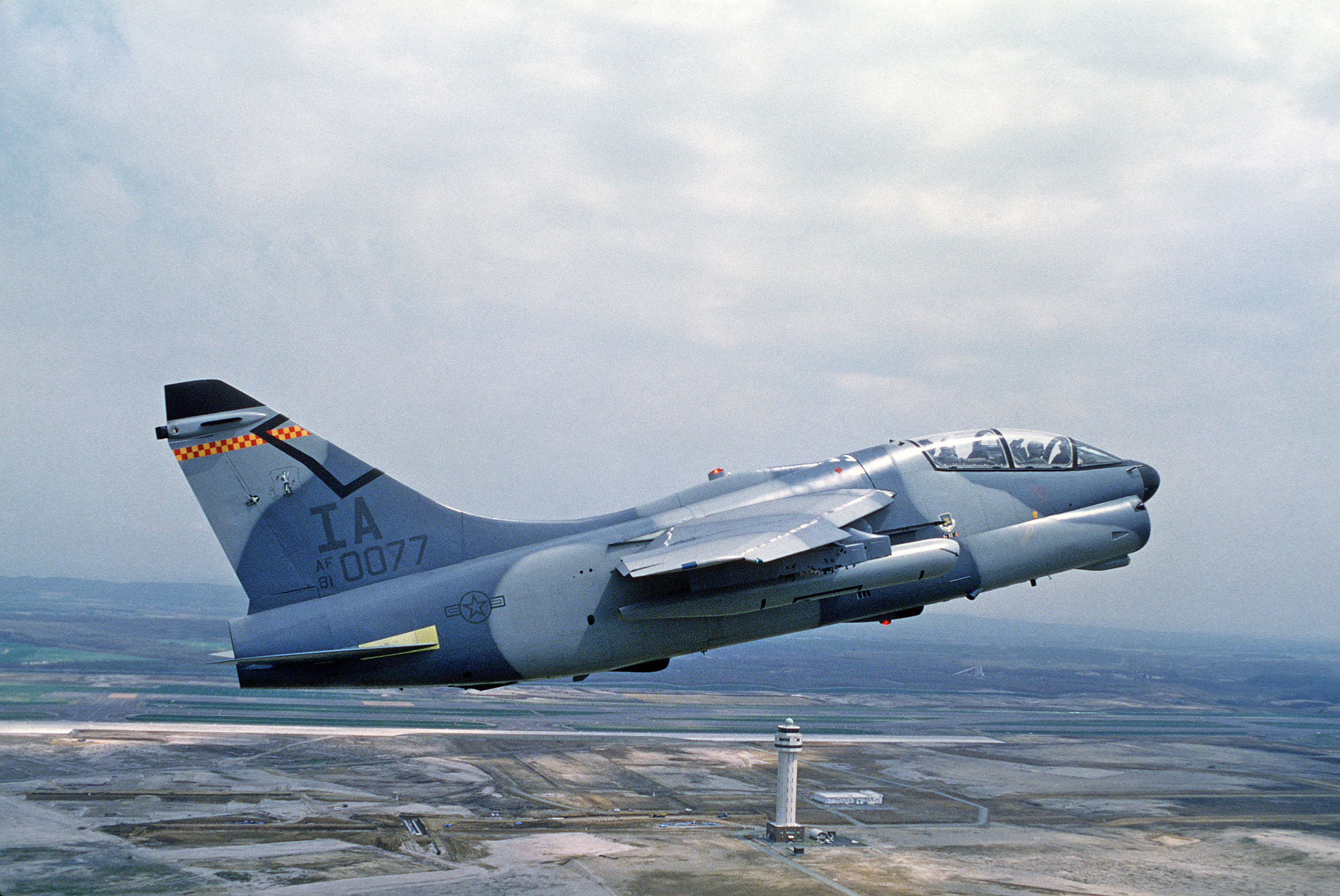 A U.S. Air Force Ling-Temco-Vought A-7K Corsair II (s/n 81-0077) from the 132nd Tactical Fighter Wing, Iowa Air National Guard, in flight during exercise "Cope North 88-3" 1985: Delivered to 124th Tactical Fighter Squadron. IA Air National Guard, Des Moines Air National Guard Base (c/n K-030) Transferred to AMARC as AE0237 Oct 7, 1992. Disposition:14-JUN-01 / Transferred to USN Inventory as PCN AN6A0443.